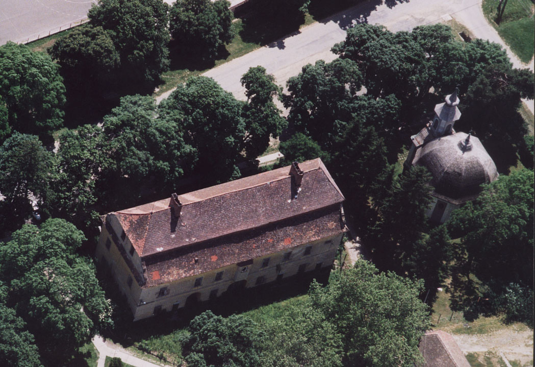 Palace - Mecseknádasd - Hungary - Europe